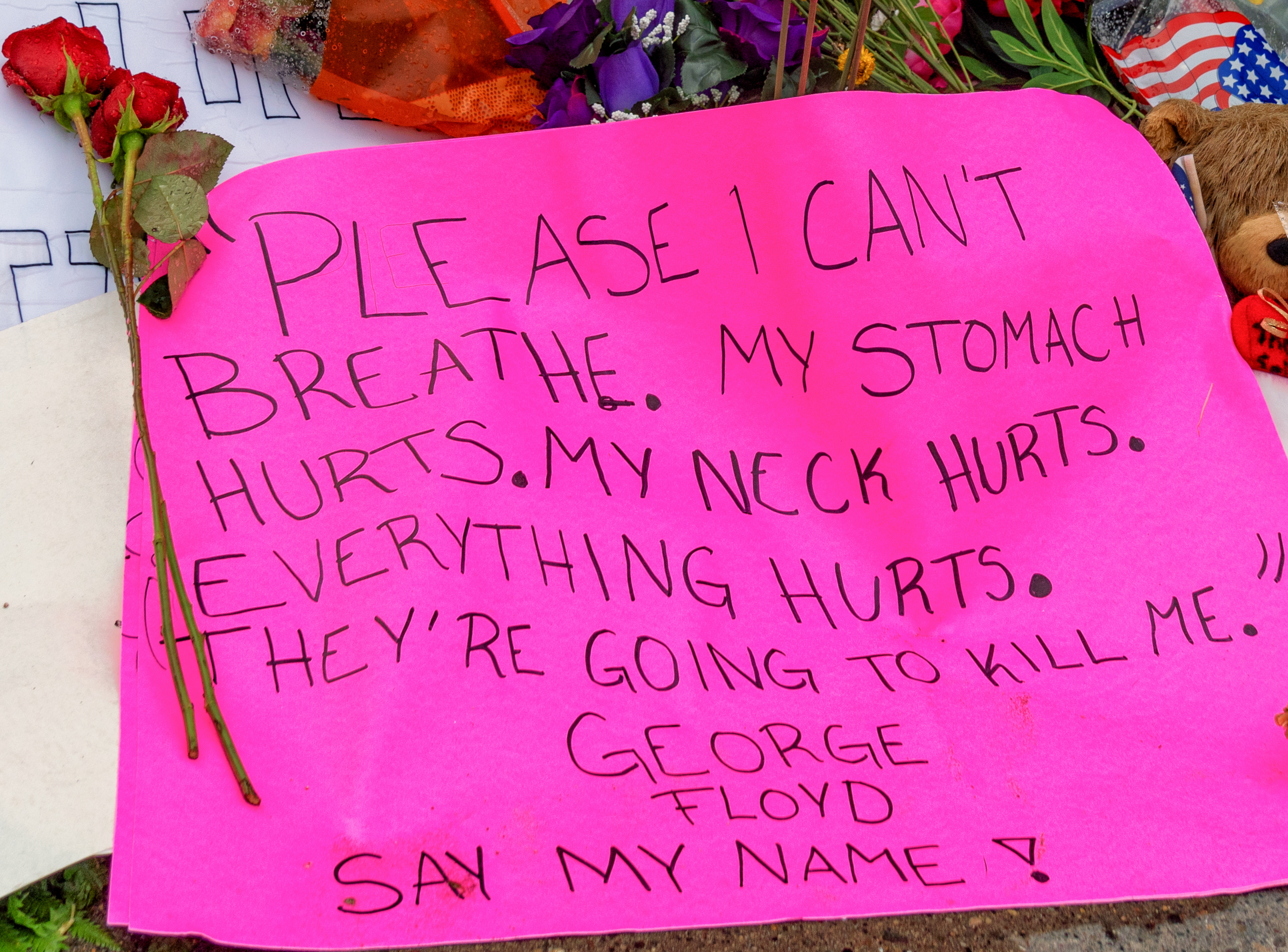 A memorial has been placed outside Cup Foods near 38th and Chicago Avenue South in Minneapolis, Minnesota, the site where a white Minneapolis police officer pressed his knee into the neck of George Floyd—an unarmed, handcuffed black man's neck, killing him. Cropped and rotated version of original at File:George Floyd Memorial at 38th and Chicago Avenue South, Minneapolis (49942178738).jpg